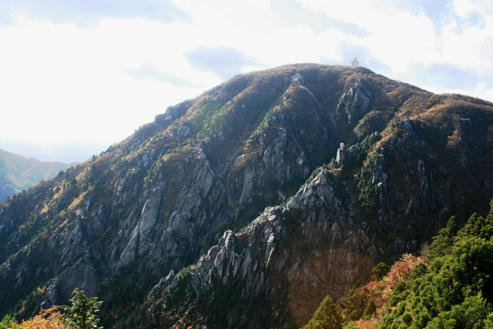 Tonai wall in Mount Gozaisho